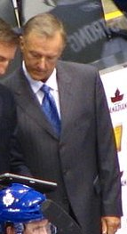 Ron Wilson looking over plays on a tablet PC in September of 2010